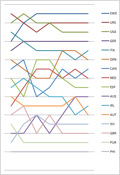 1976 TEMPEST Daily standings during the Olympic sailing event